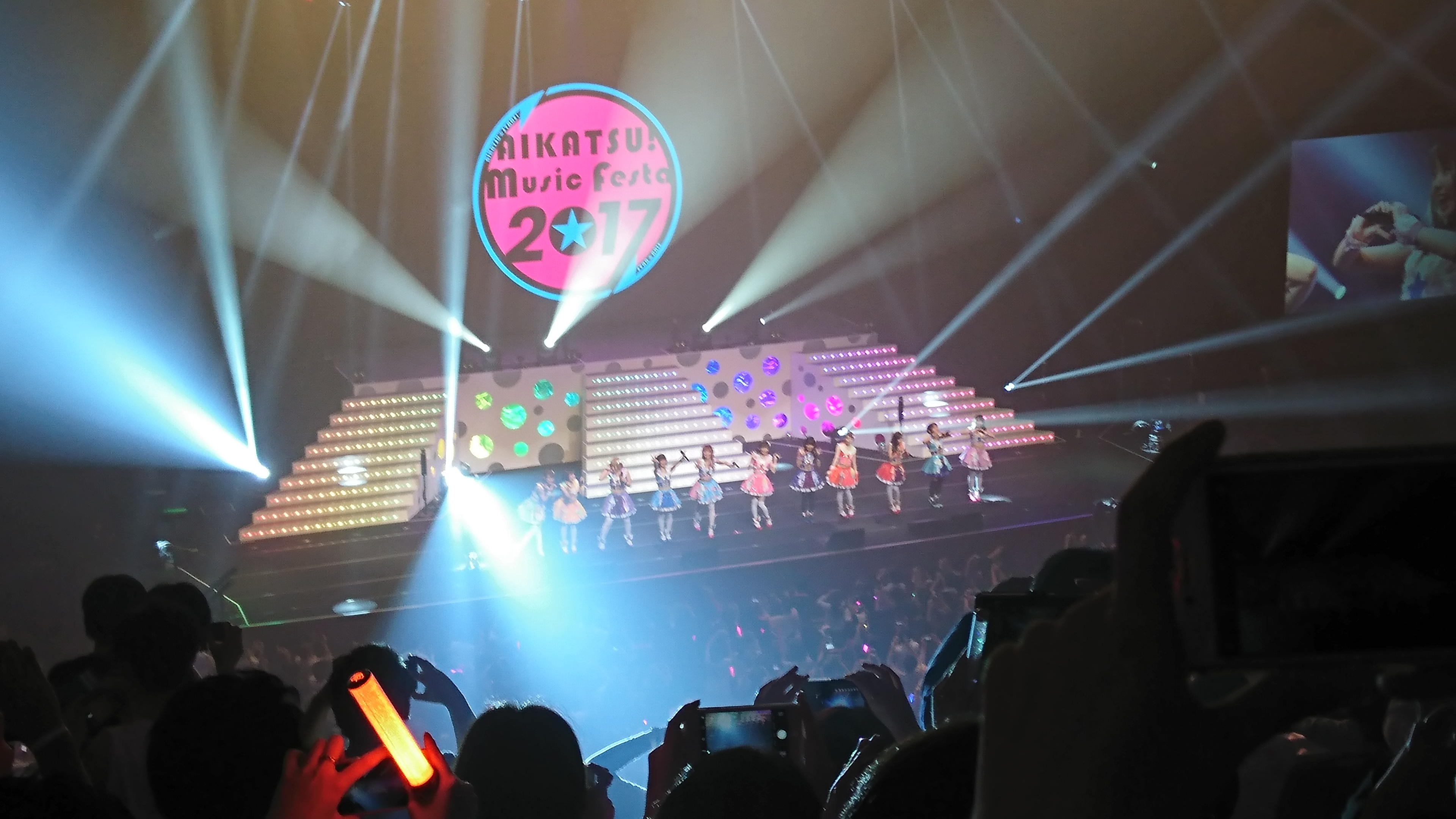 Aikatsu! Music Festa held at National Convention Hall in Pacifico Yokohama. This photo was taken during the performance on 26 March 2017 (the 2nd day of the event). The participants for this event were specially allowed to photograph the performers only during certain minutes.